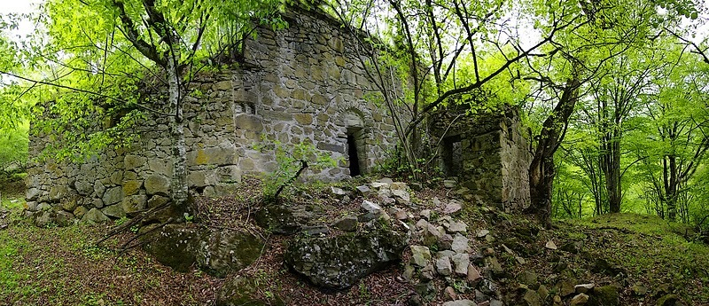 Armenian church Khatyrvank in Karmirovan/Qozlu village. Built in 1204.